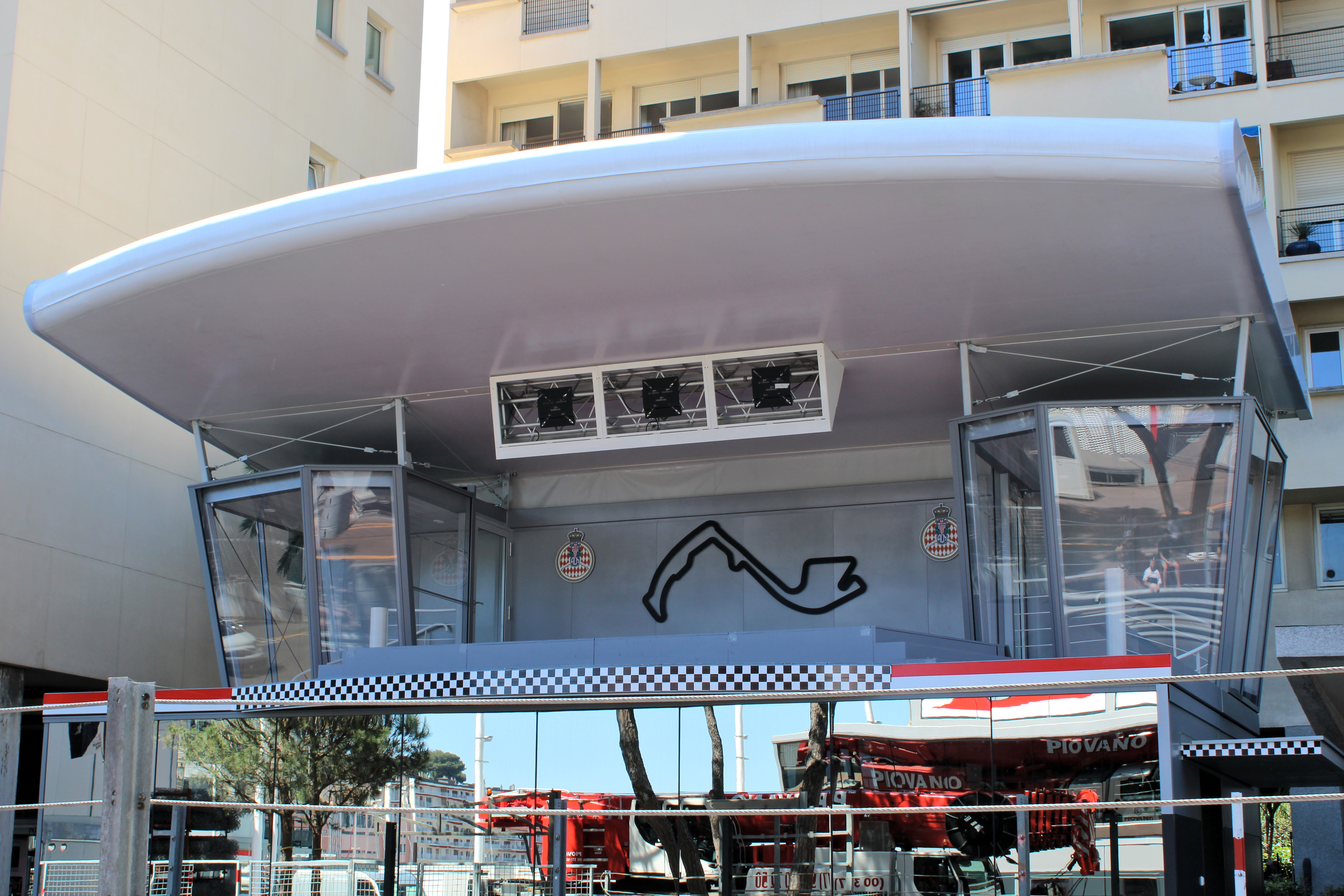 Podium Circuit de Monaco